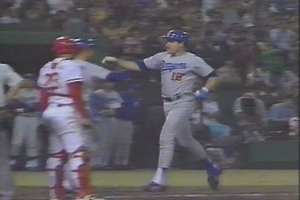 Mark Ryal